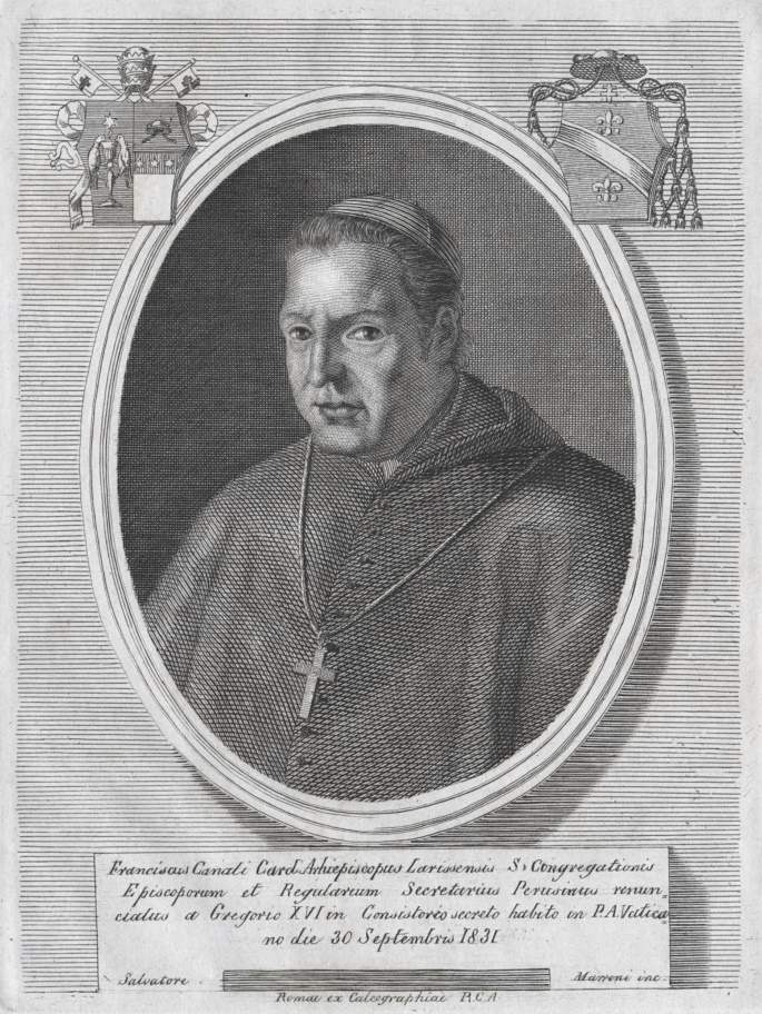 Kardinal Francesco Canali (1764-1835)